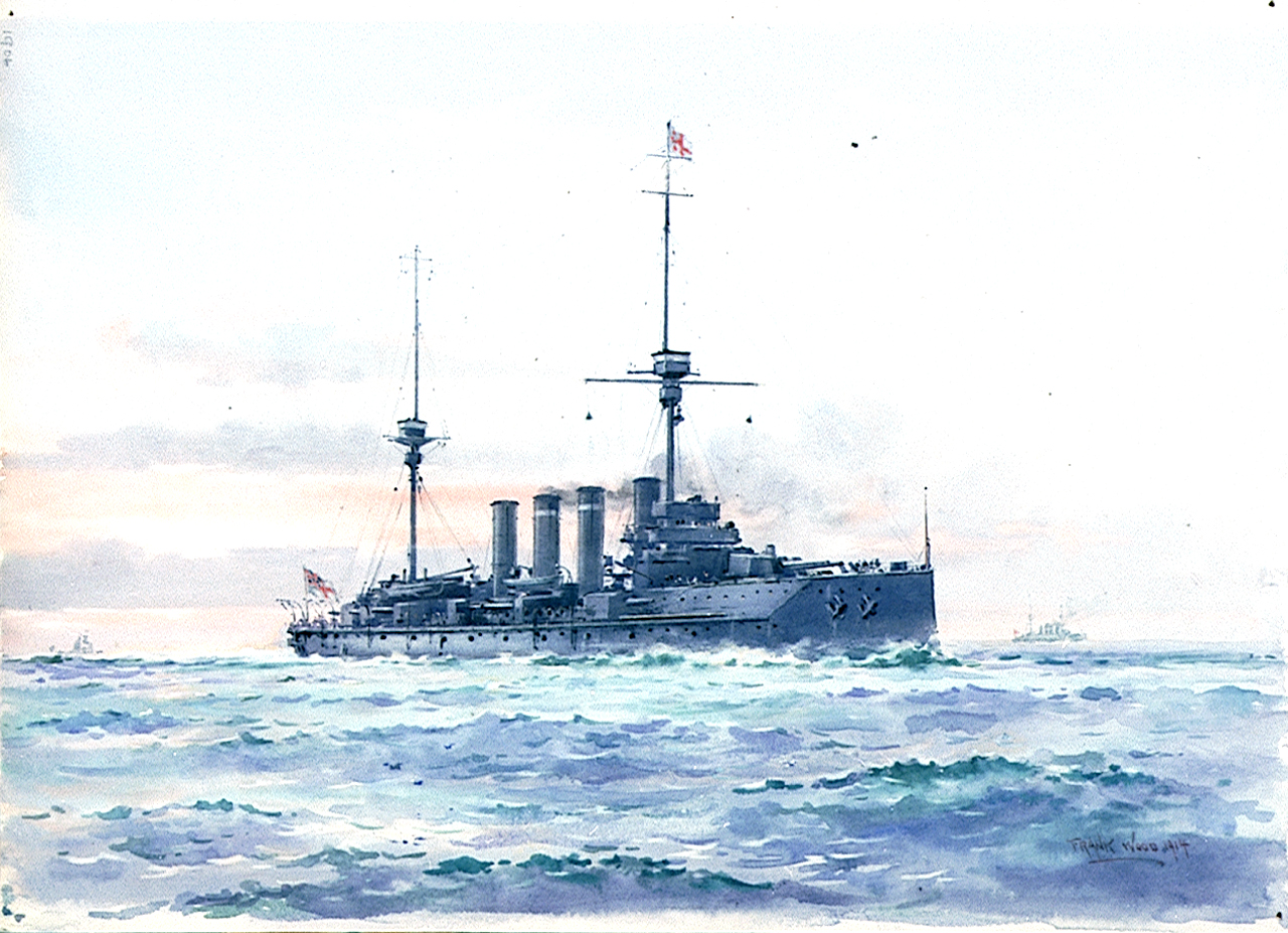 H.M.S. Shannon Signed by artist.